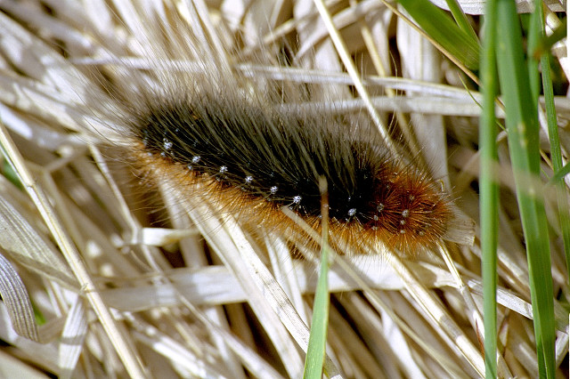 Picture taken in Commanster, Belgian High Ardennes . Species: Arctia caja caterpillar